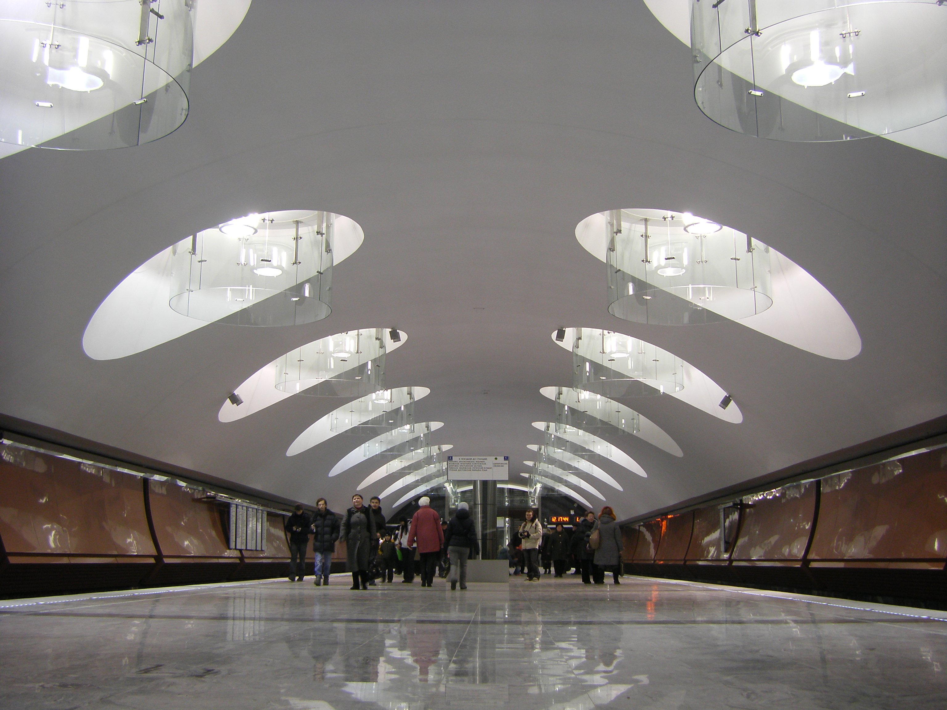 photo of the Moscow Metro station "Borisovo"